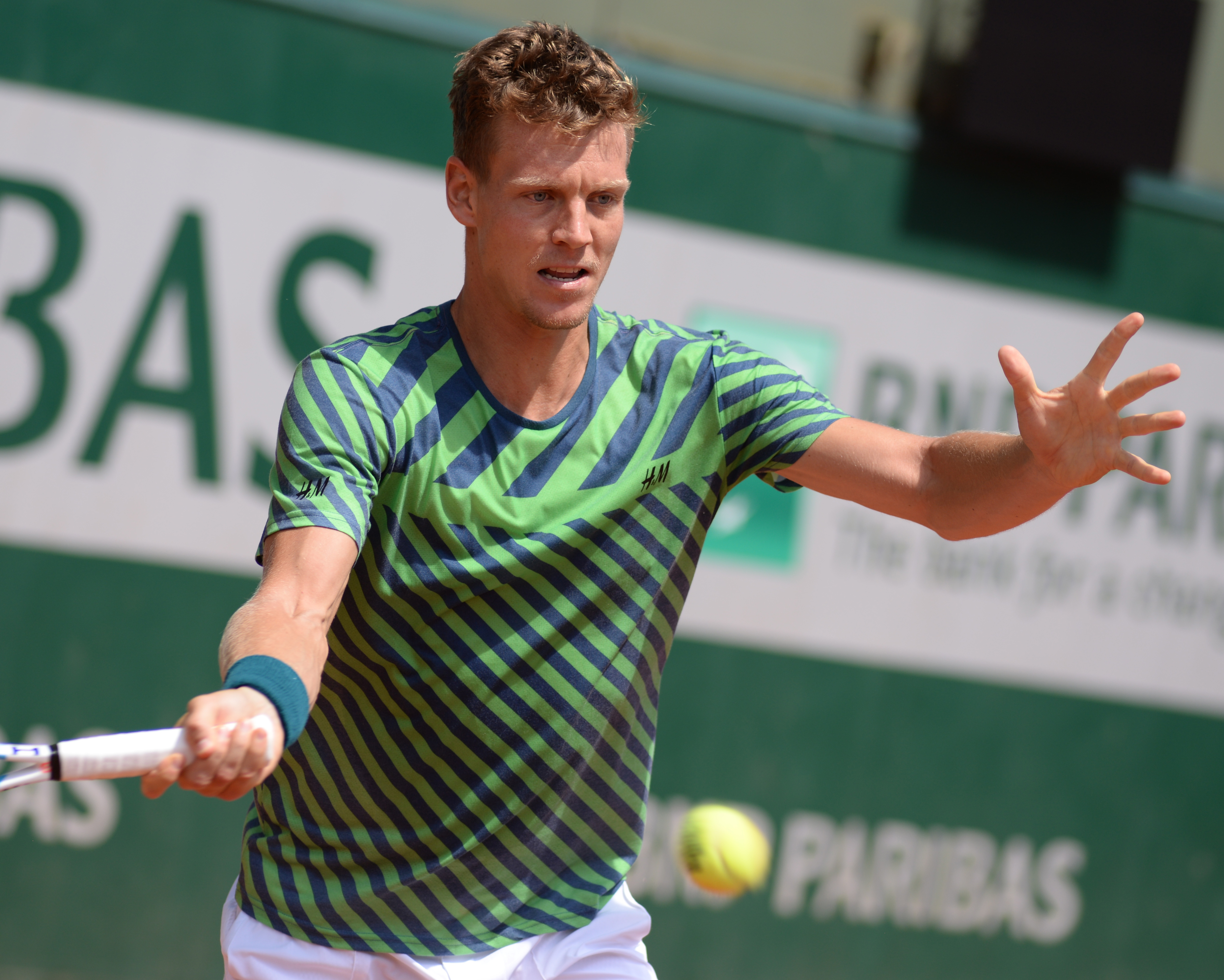 Tomas Berdych